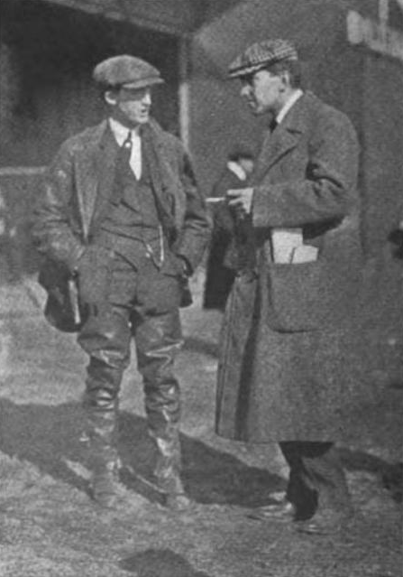 Aviators Charles Keeney Hamilton (left) and Hubert Latham, taken c. 1910.